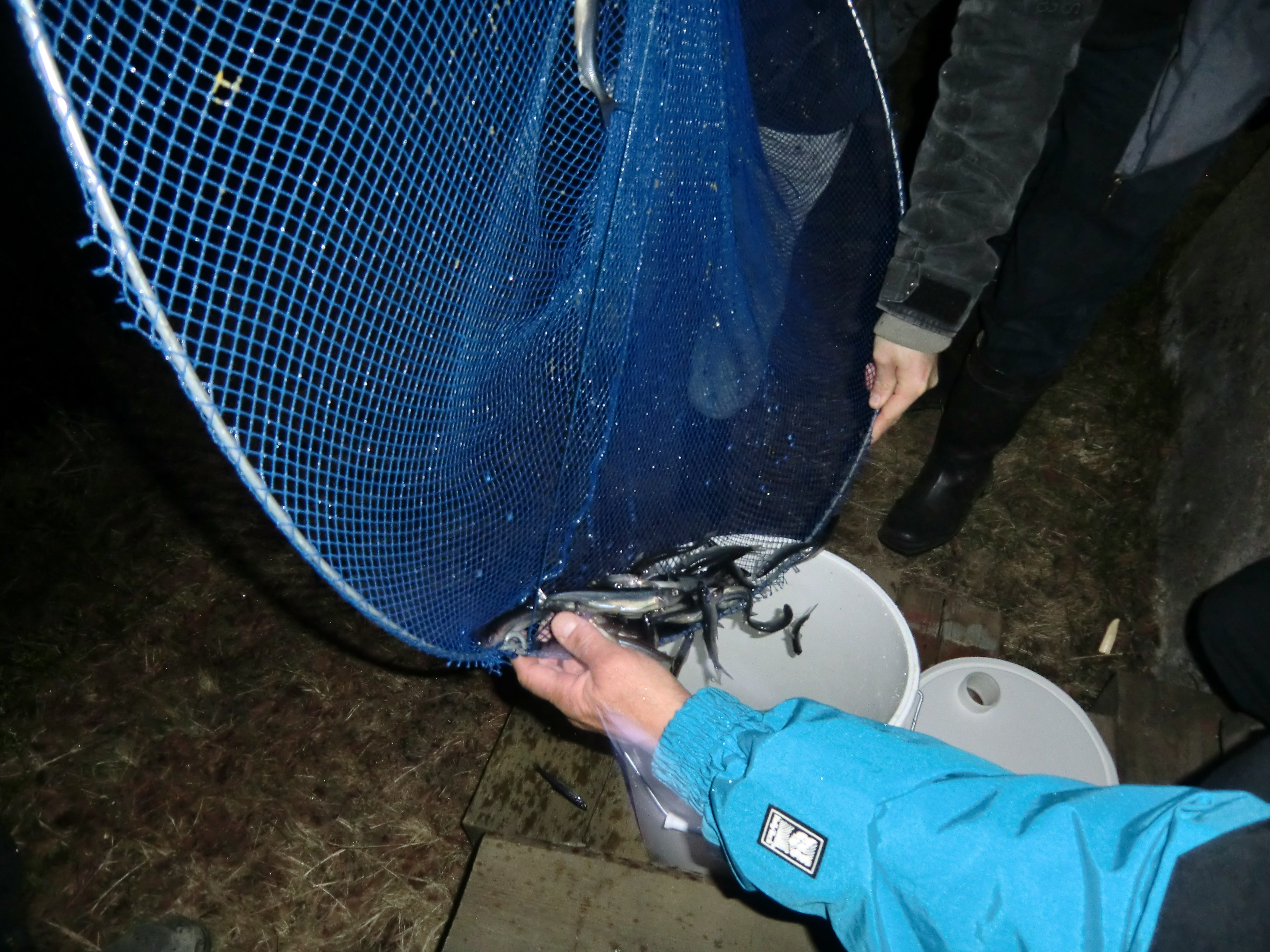 European smelt (Osmerus eperlanus) caught in Ljusnan river (Värmland).